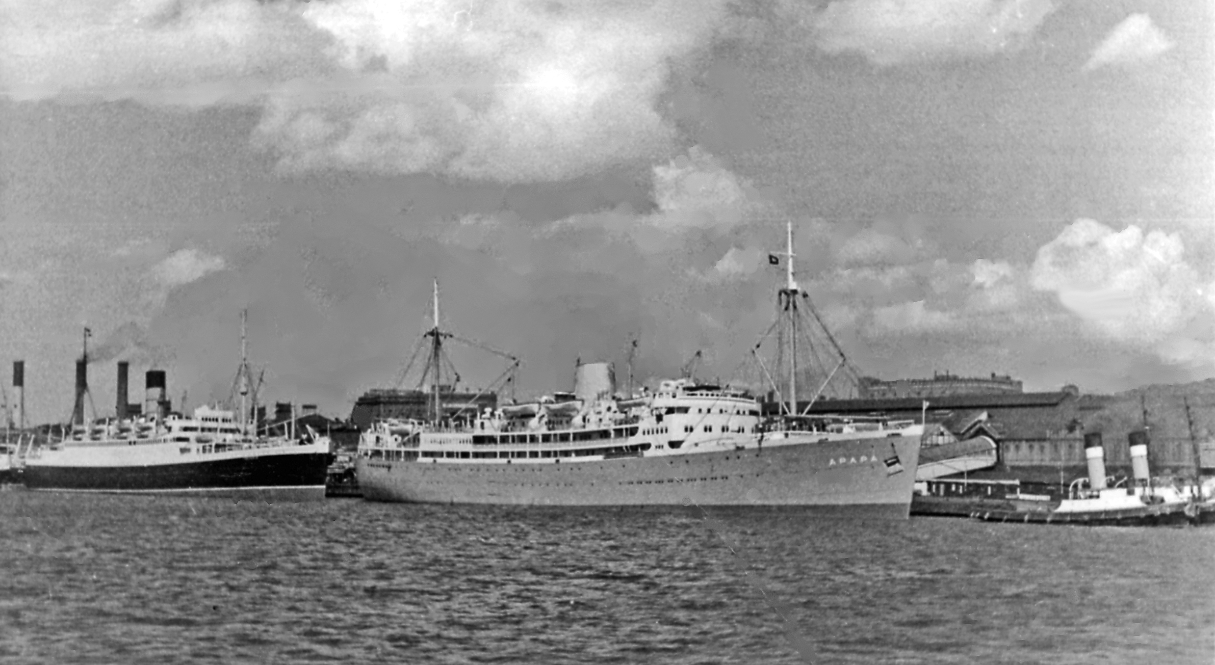 Liners moored at Liverpool Princes Landing Stage, 1950. View northward from Birkenhead Ferry. The nearer ship is Elder Dempster Lines' MV Apapa (11,651 GRT), launched in 1948 to replace an earlier MS Apapa sunk by enemy aircraft in November 1940.